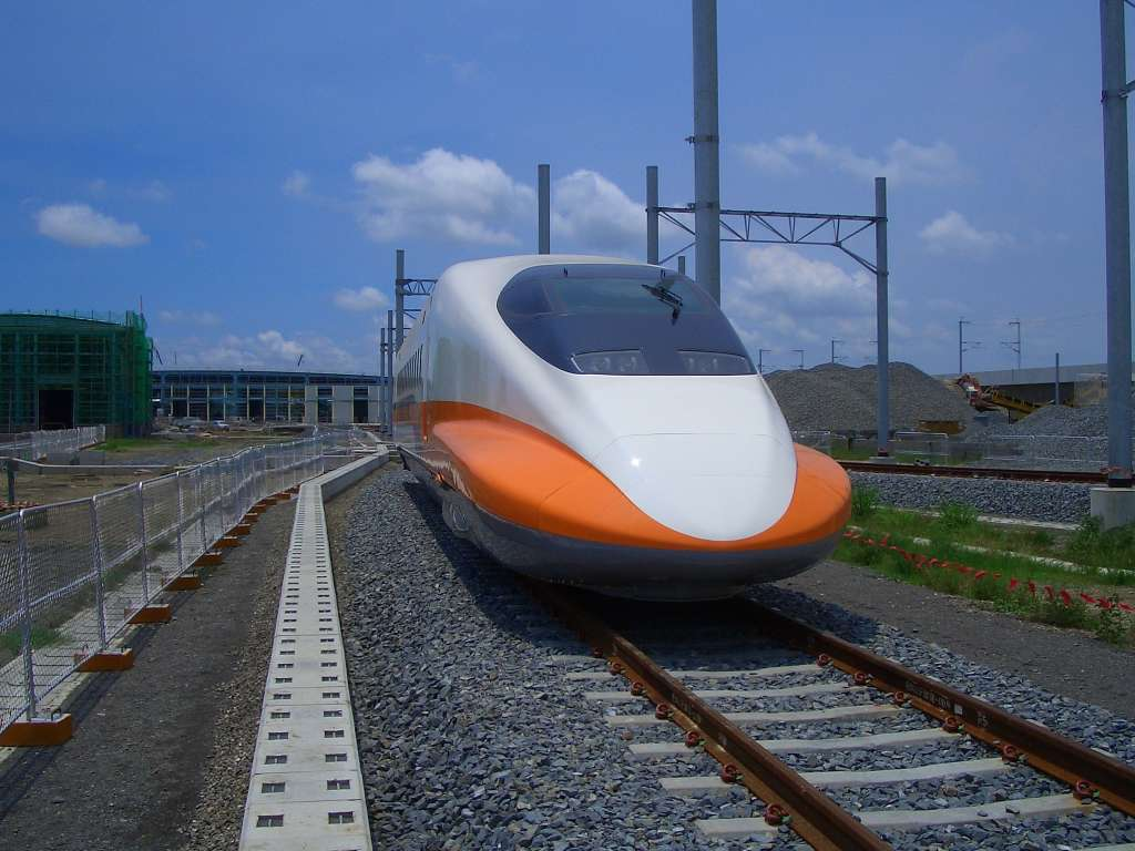 Shinkansen 700T train head at Kaoshung depot, August 2004.